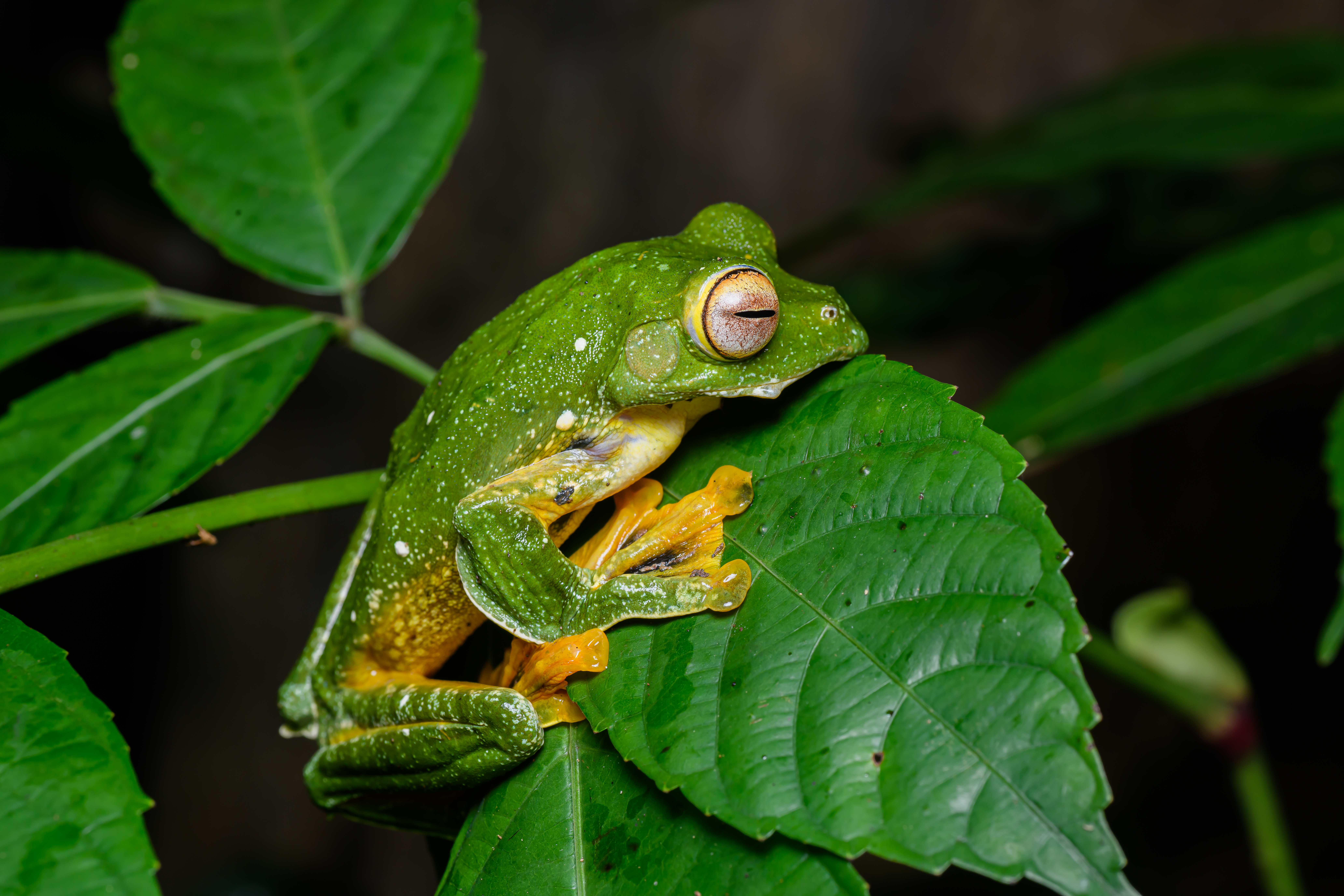 Rhacophorus kio - Kui Buri National Park. Photo by Thai National Parks